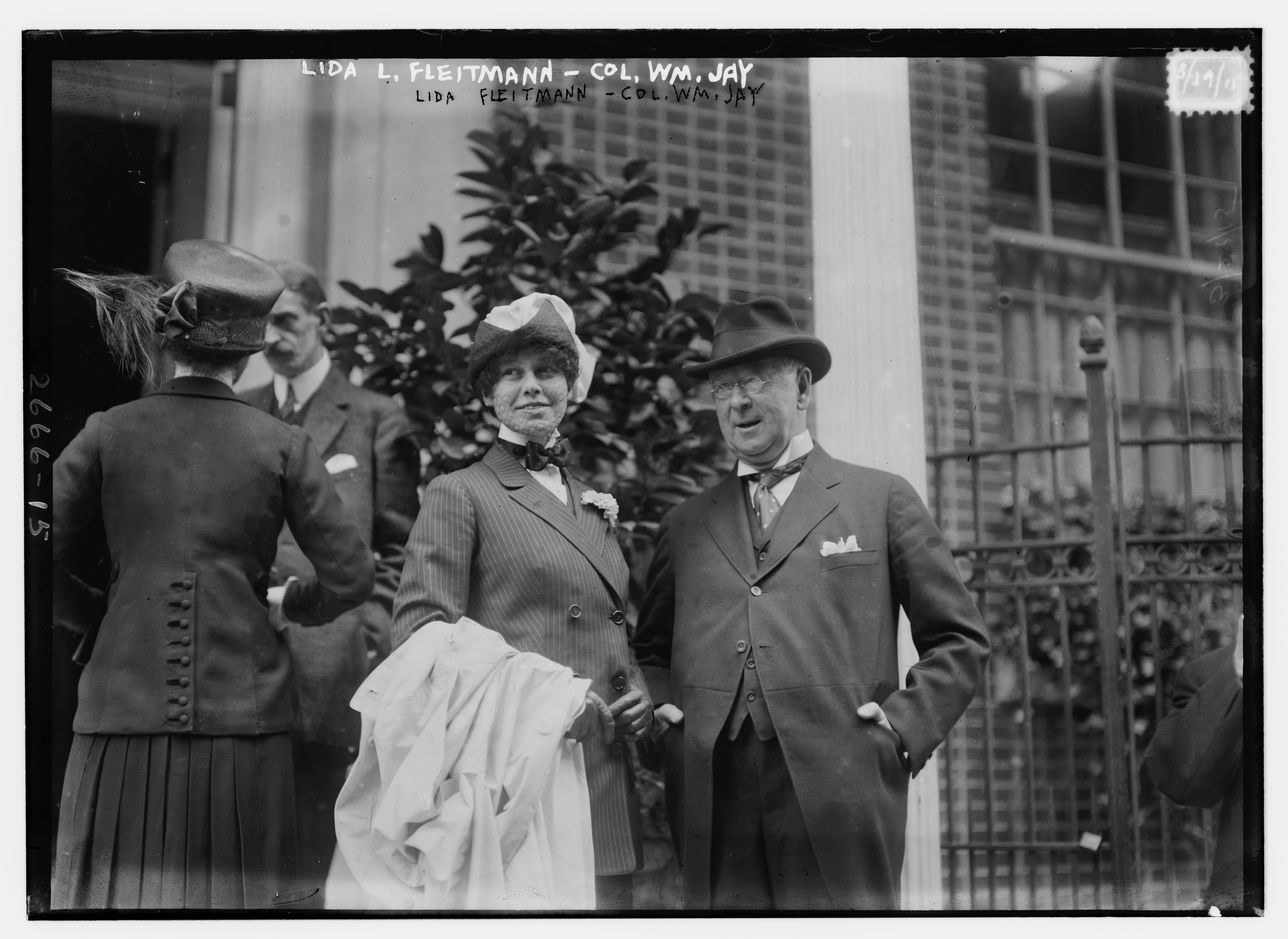 William Jay Bain News Service,, publisher. Lida Fleitmann - Col. Wm. Jay [no date recorded on caption card] 1 negative : glass ; 5 x 7 in. or smaller. Notes: Title from unverified data provided by the Bain News Service on the negatives or caption cards. Forms part of: George Grantham Bain Collection (Library of Congress). Format: Glass negatives. Repository: Library of Congress, Prints and Photographs Division, Washington, D.C. 20540 USA, General information about the Bain Collection is available at Persistent URL: Call Number: LC-B2- 2666-15